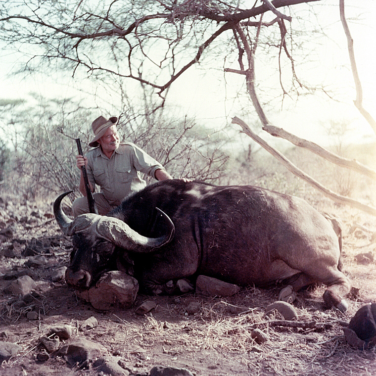 Ernest Hemingway poses with a African buffalo (Syncerus caffer) while on safari in Africa, 1953-1954.